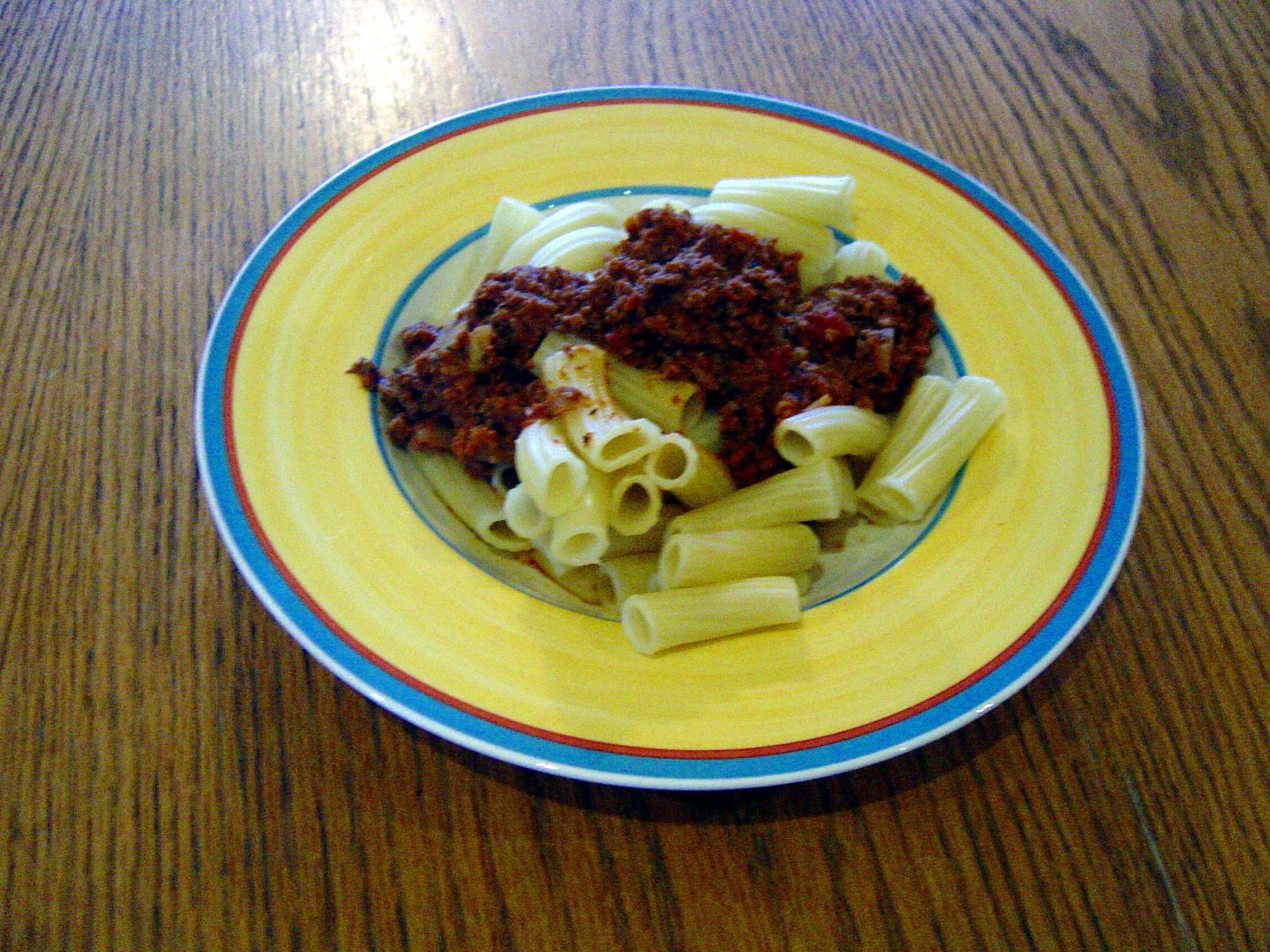 Bowl of pasta Bolognese